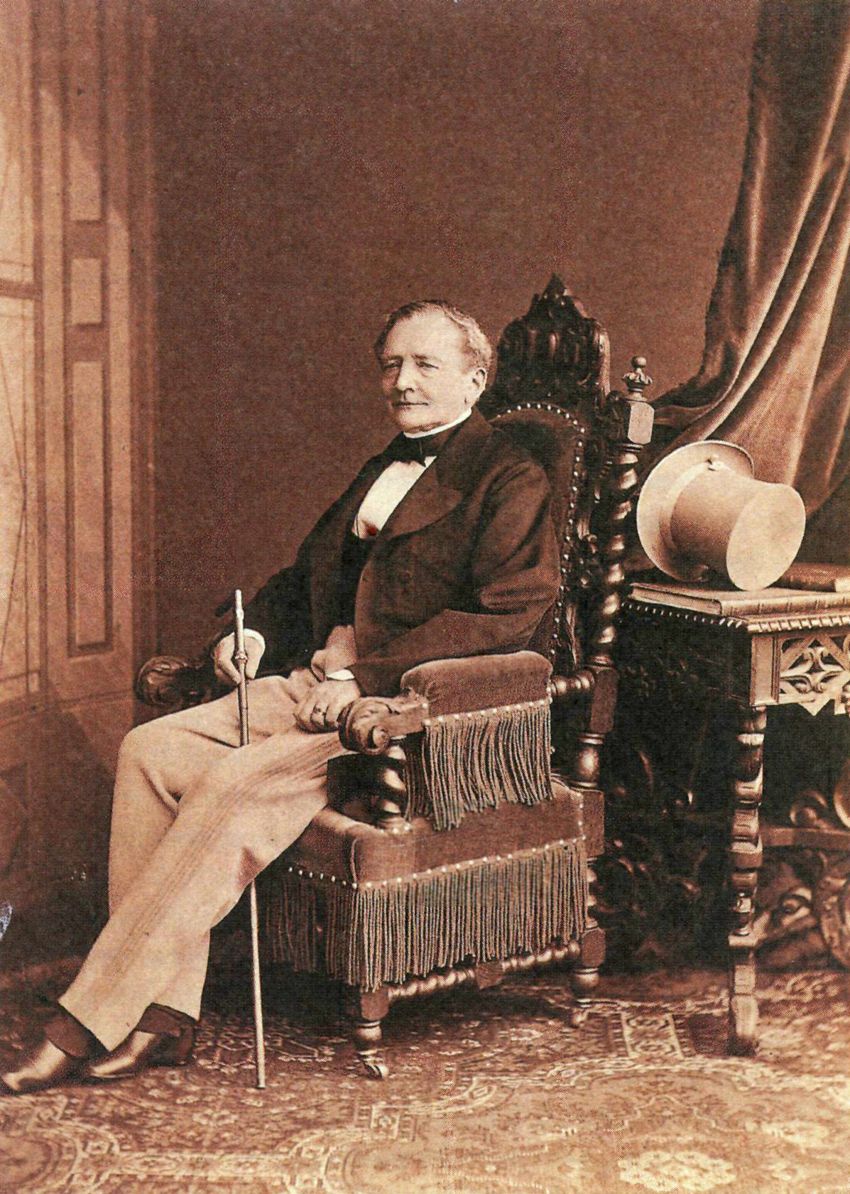 Alexander Armfelt, Minister–Secretary of State for Finland in St. Petersburg.